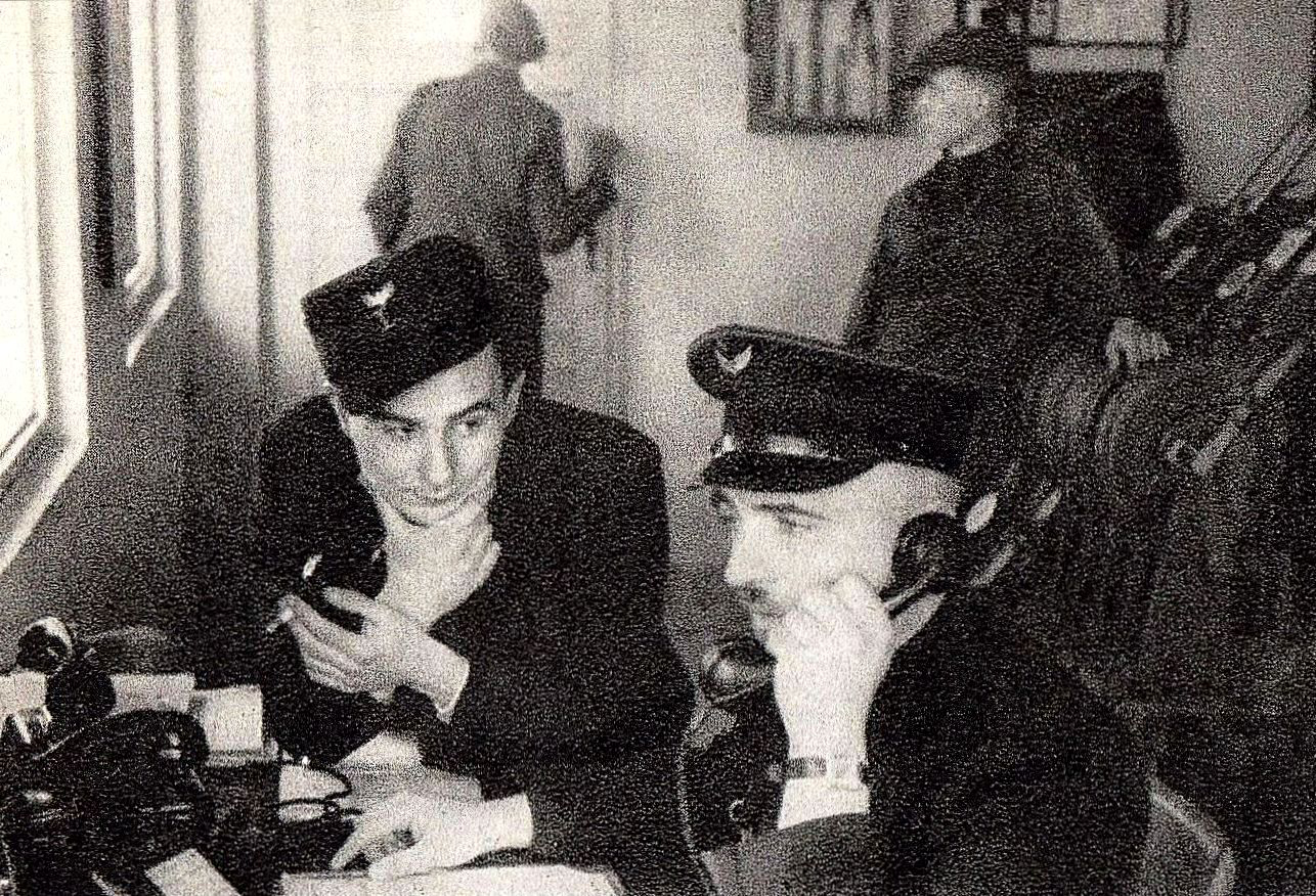 Franciszek Ząbecki (speaking on the phone) inside the building of Treblinka railway station